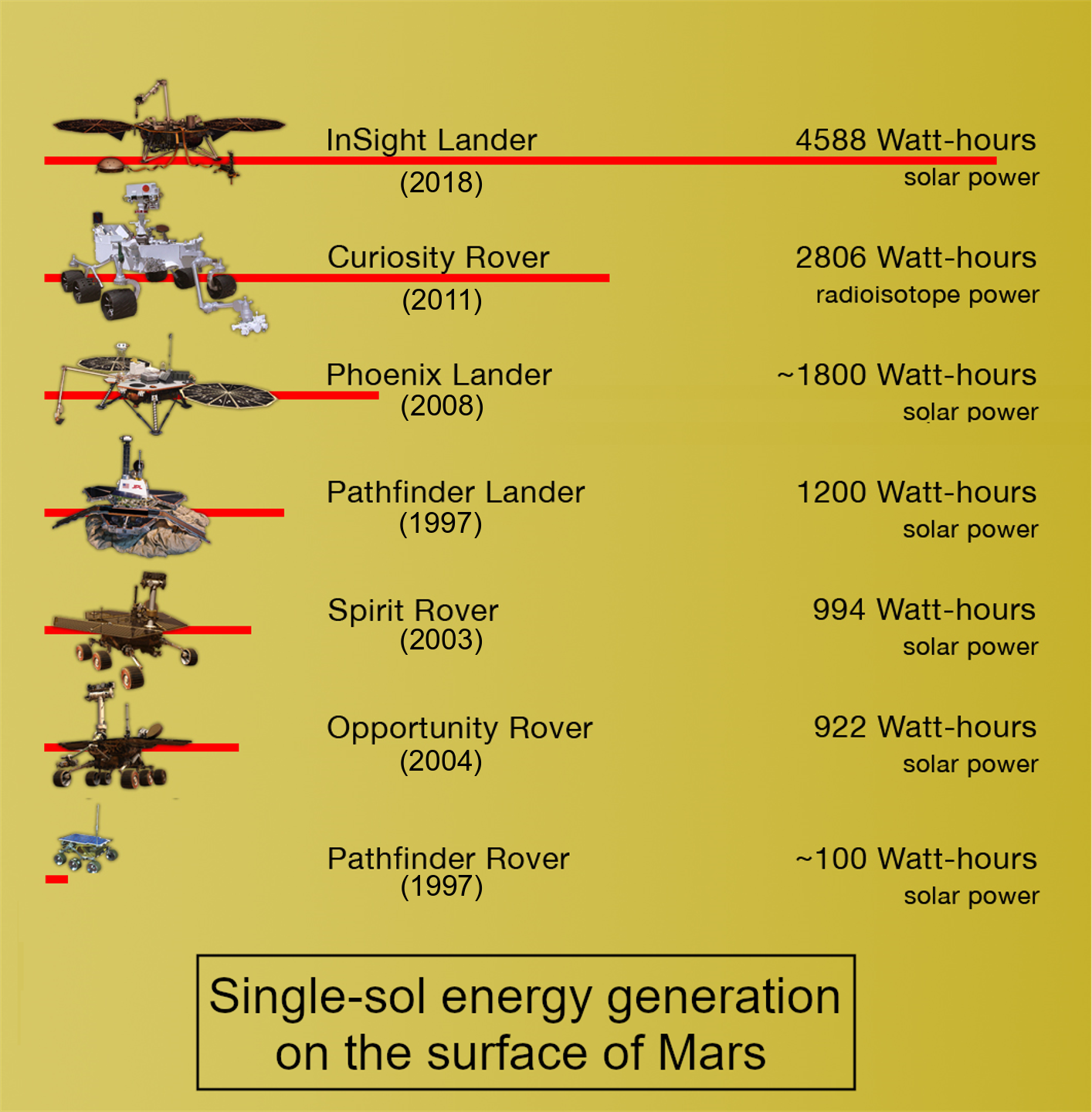 CORRECTED VERSION - TEST Corrected Several Possible Errors on the original image November 30, 2018 - Mars New Home 'a Large Sandbox' This graphic compares the amount of energy ever generated in a single sol (Martian day) by NASA rovers and landers on the Red Planet. InSight, a solar-powered mission that landed on Nov. 26, 2018, broke the record on its first day. Each of InSight's twin solar arrays is 7 feet (2 meters) wide, which is larger than the arrays used in previous missions.